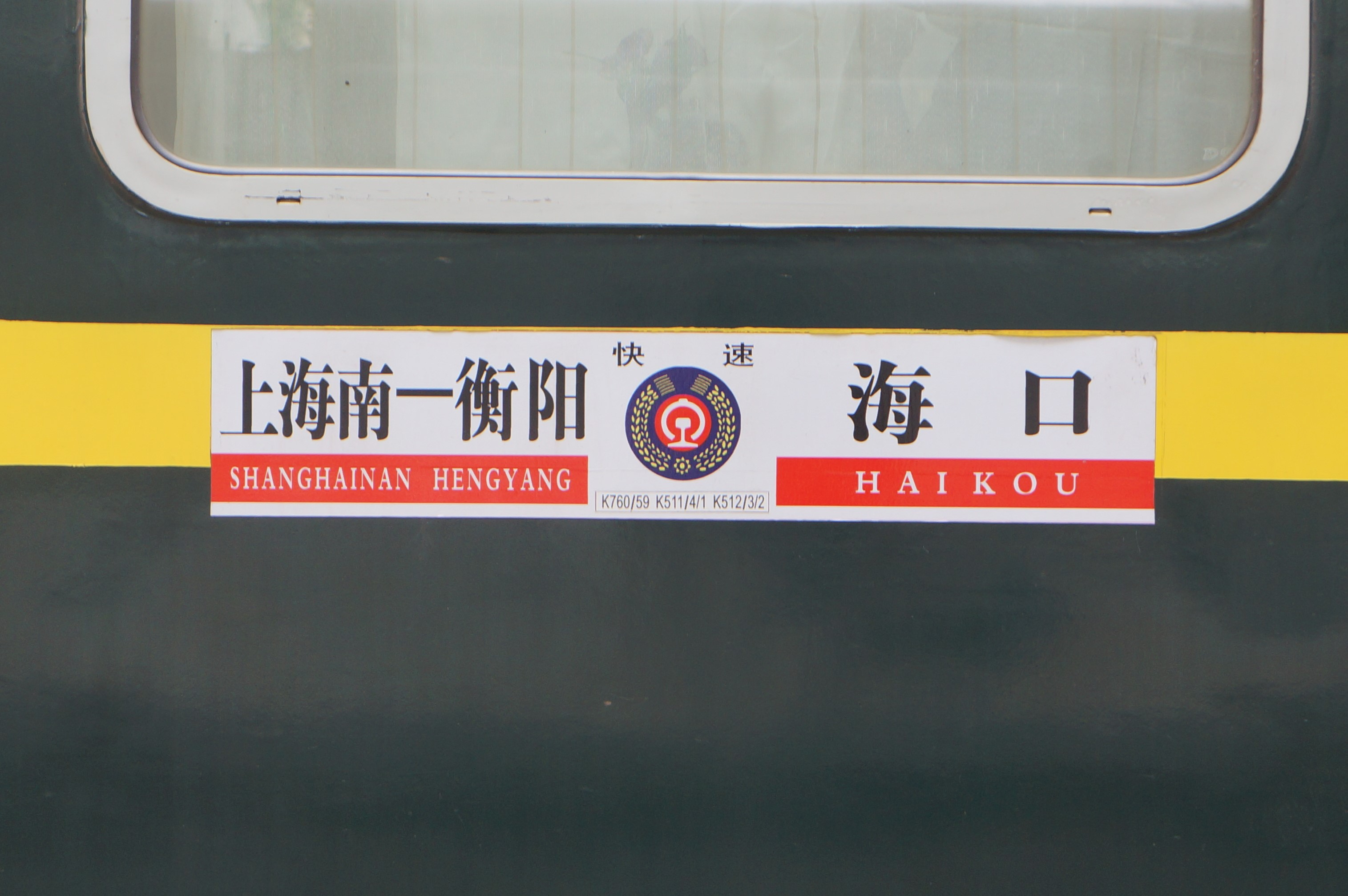 K511-514 K759-760 info board in 201806